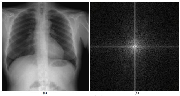 A chest radiograph is illustrated in (a) with its 2-D Fourier spectrum in (b). The spatial frequency data show a broad range of values with significant vertical and horizontal features associated with the vertebral column and ribs, respectively.